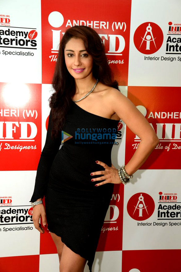 Mahek Chahal at launch of INIFD Academy of Interiors